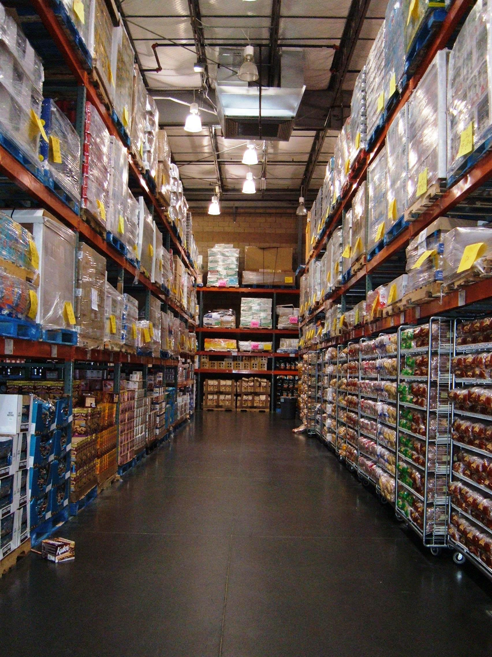 Aisle of a Costco Wholesale warehouse in South San Francisco, California, in this case for bread products.